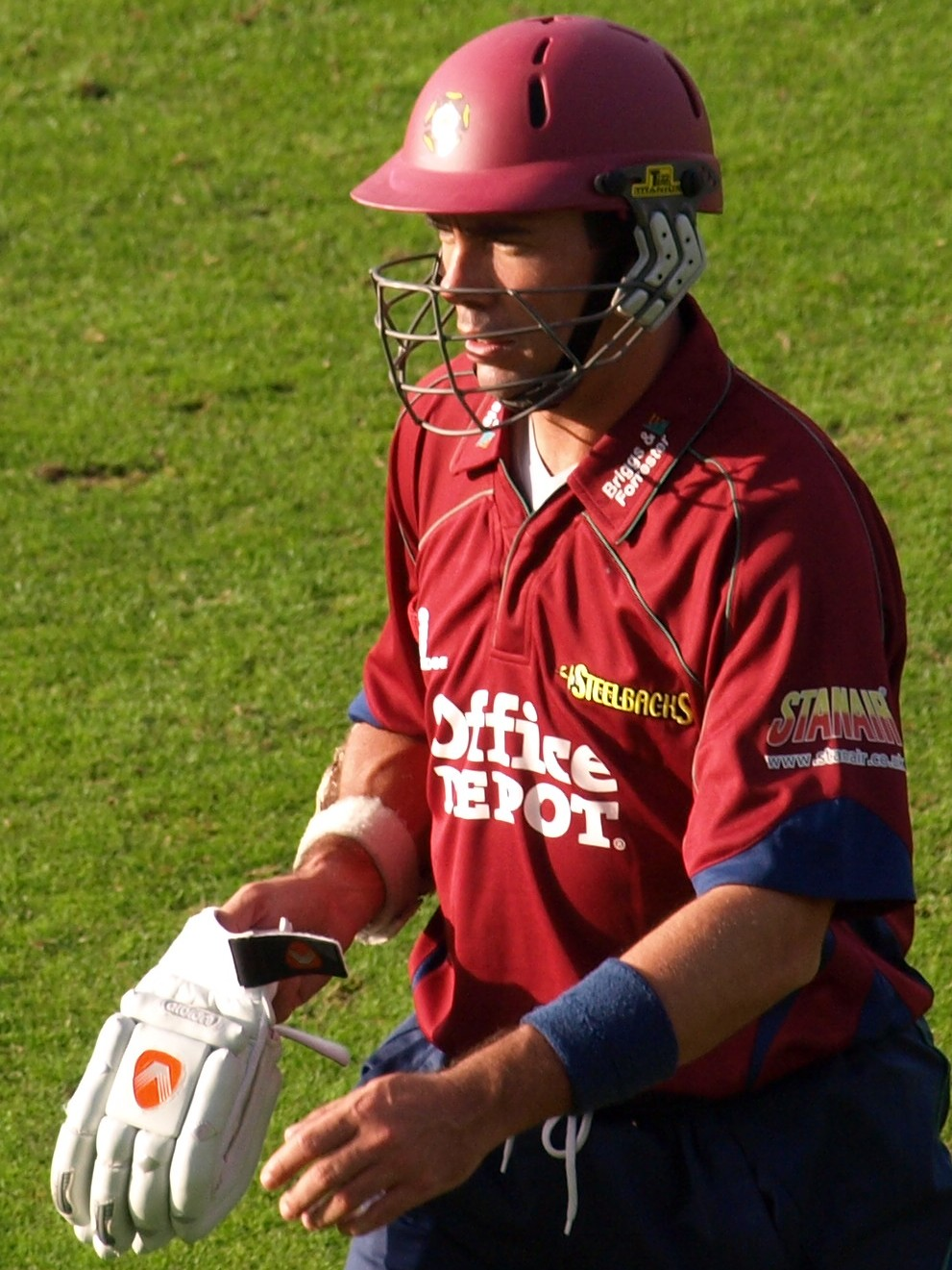 Nicky Boje, Captain of Northants [2008], Picture by Gus Stephens